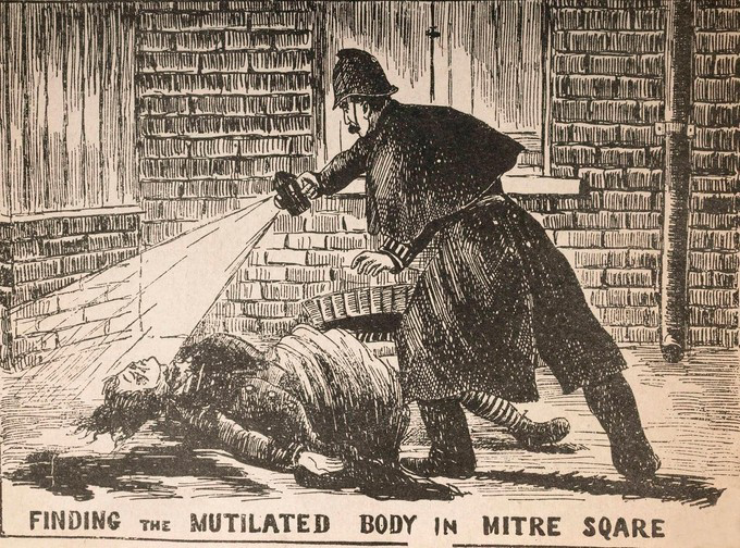 Illustration from The Illustrated Police News, 6 October 1888.